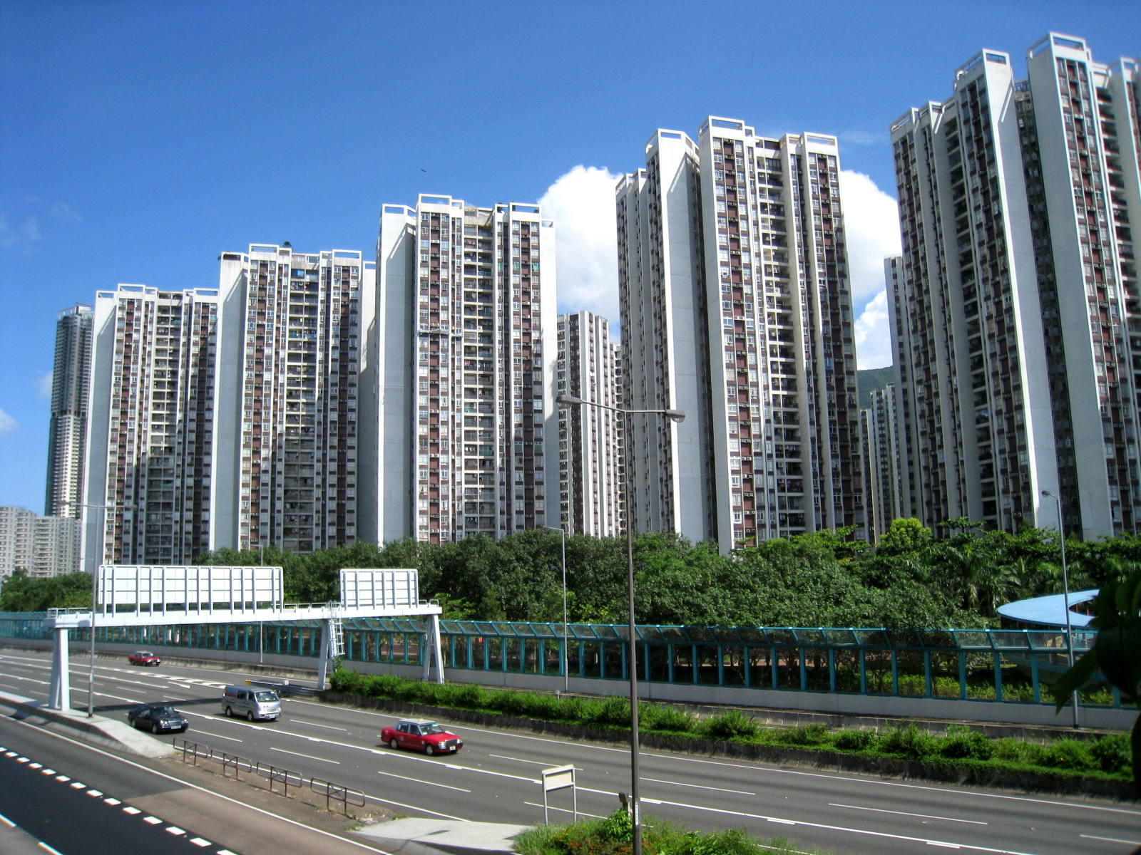 HK Taikoo Shing Harbour View Gardens East 太古城 海景花園